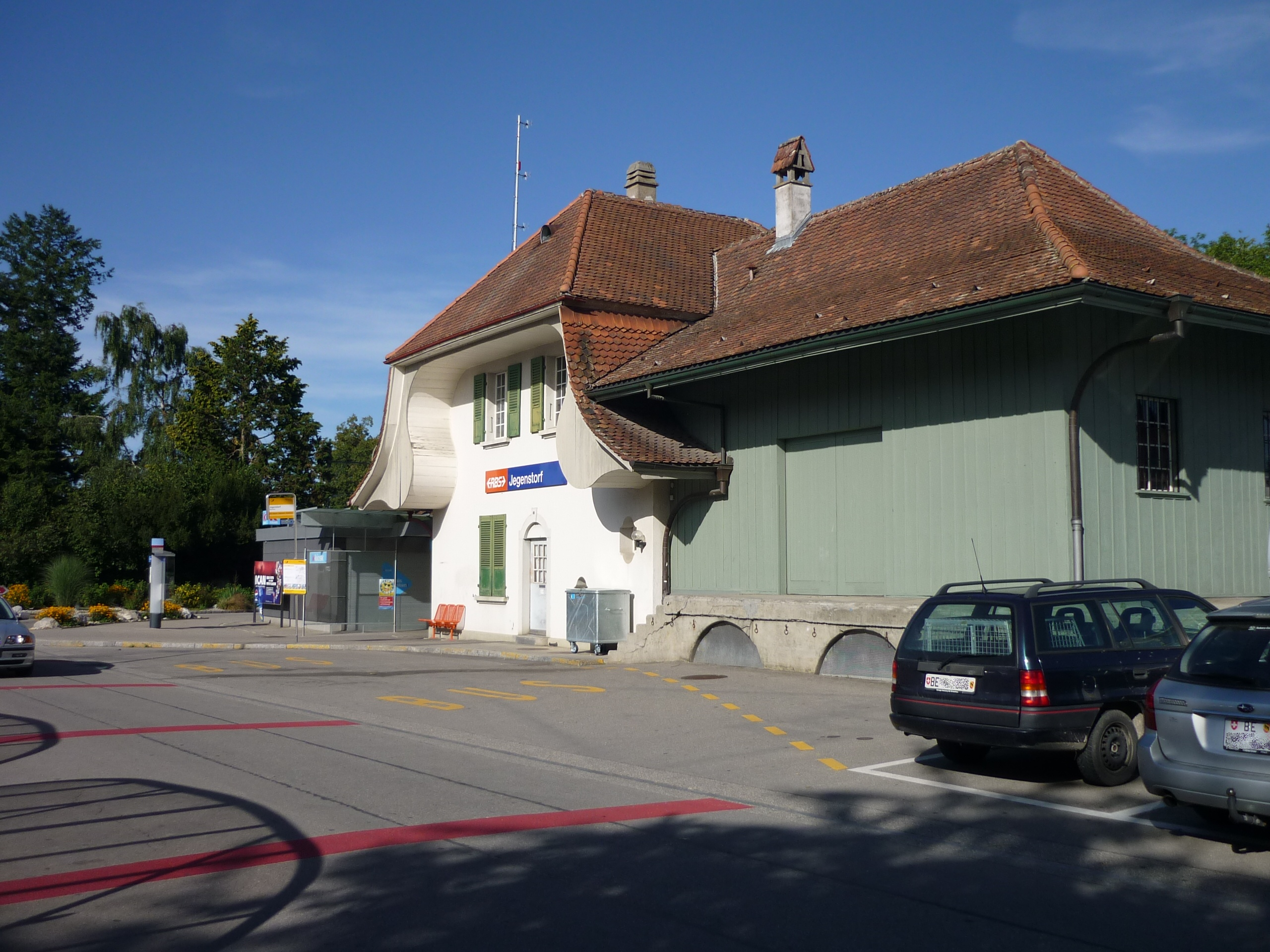 RBS train station of Jegenstorf, canton of Bern, Switzerland.